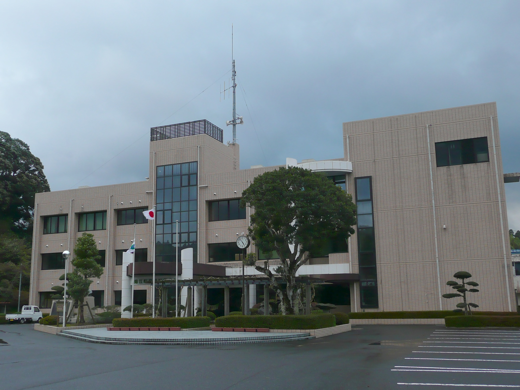 Kinko Town Office Tashiro Branch (Former Tashiro Town Office - Kagoshima Prefecture, Japan)